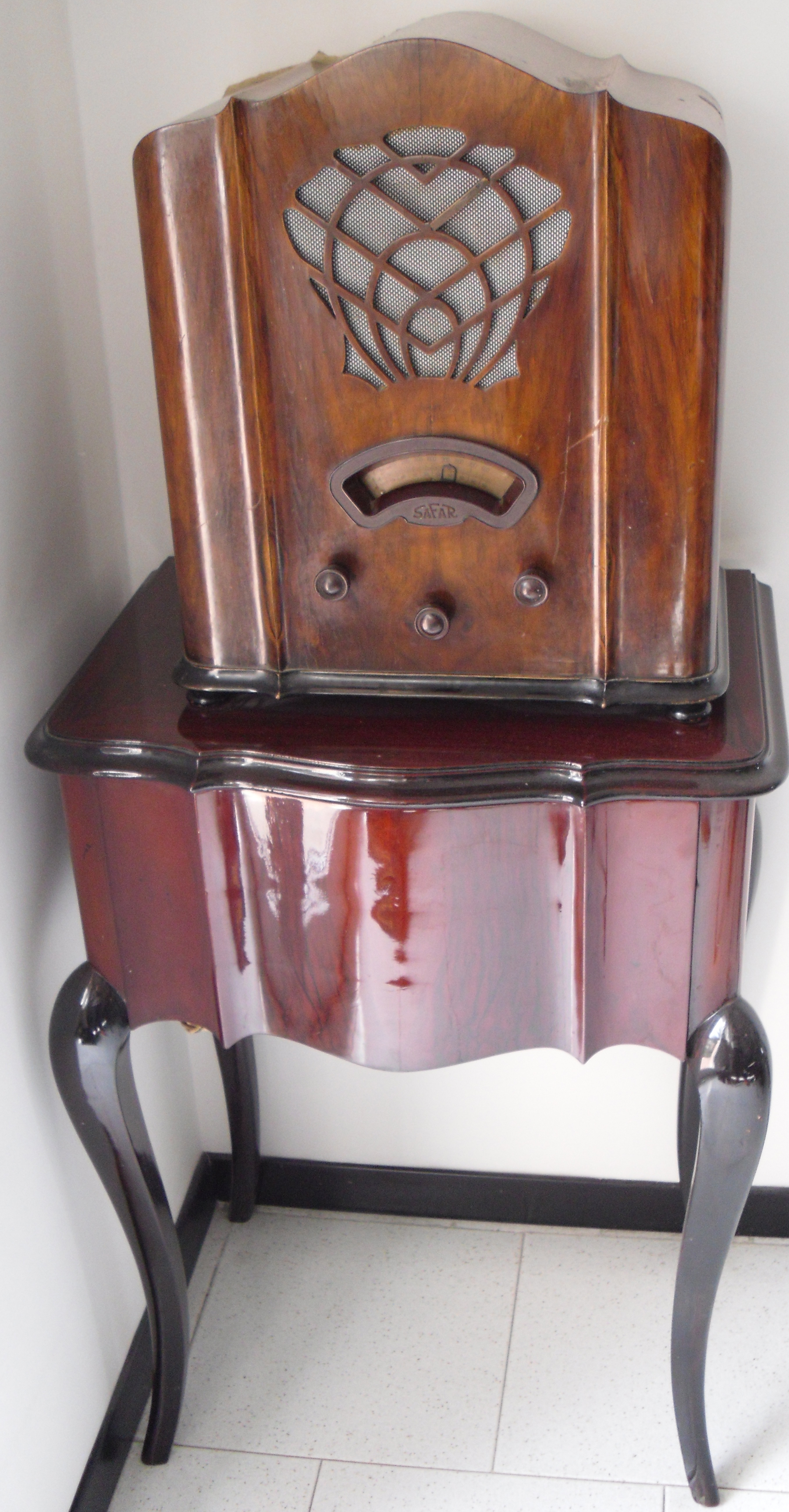 Supermelode radio, by SAFAR